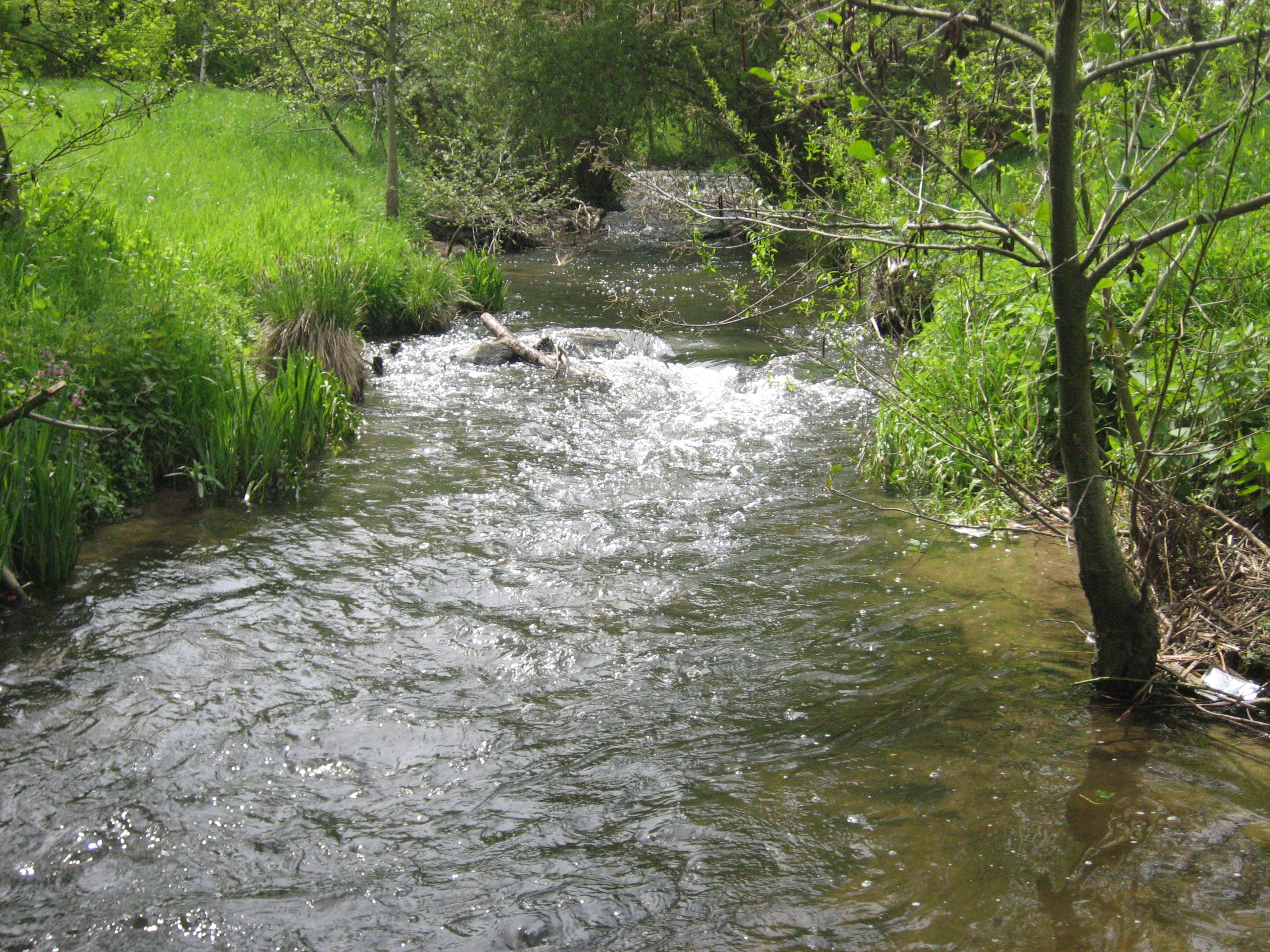 The "Urselbach" in Frankfurt-Heddernheim near to its estuary to the Nidda river